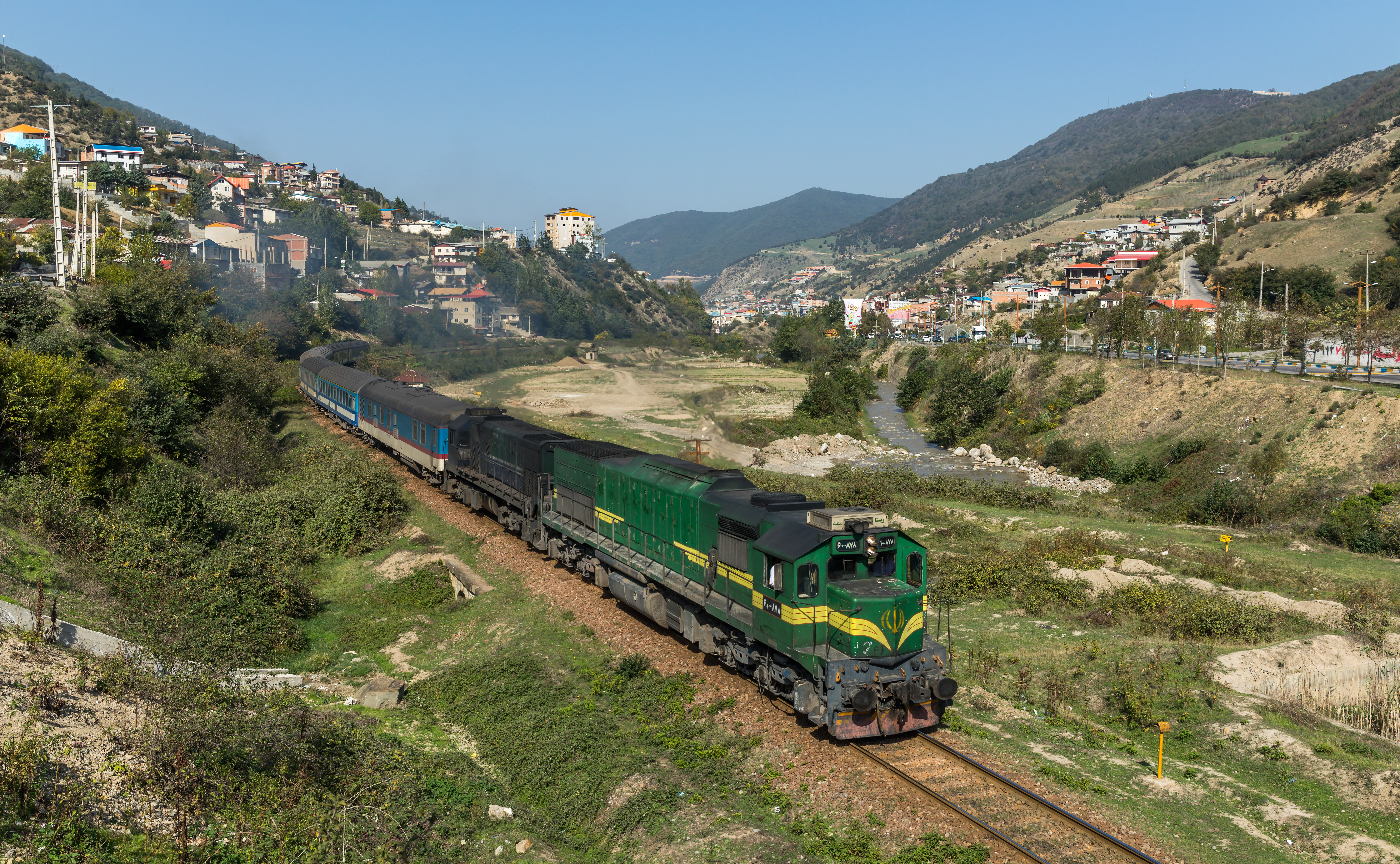 EMD GT26CW-2 nr 60-878 and an unidentified four-axle EMD unit (probably a G22W) accelerate their passenger train from Sari to Tehran after a stop in Pole Sefid, Iran.